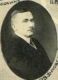 Roman Dmowski